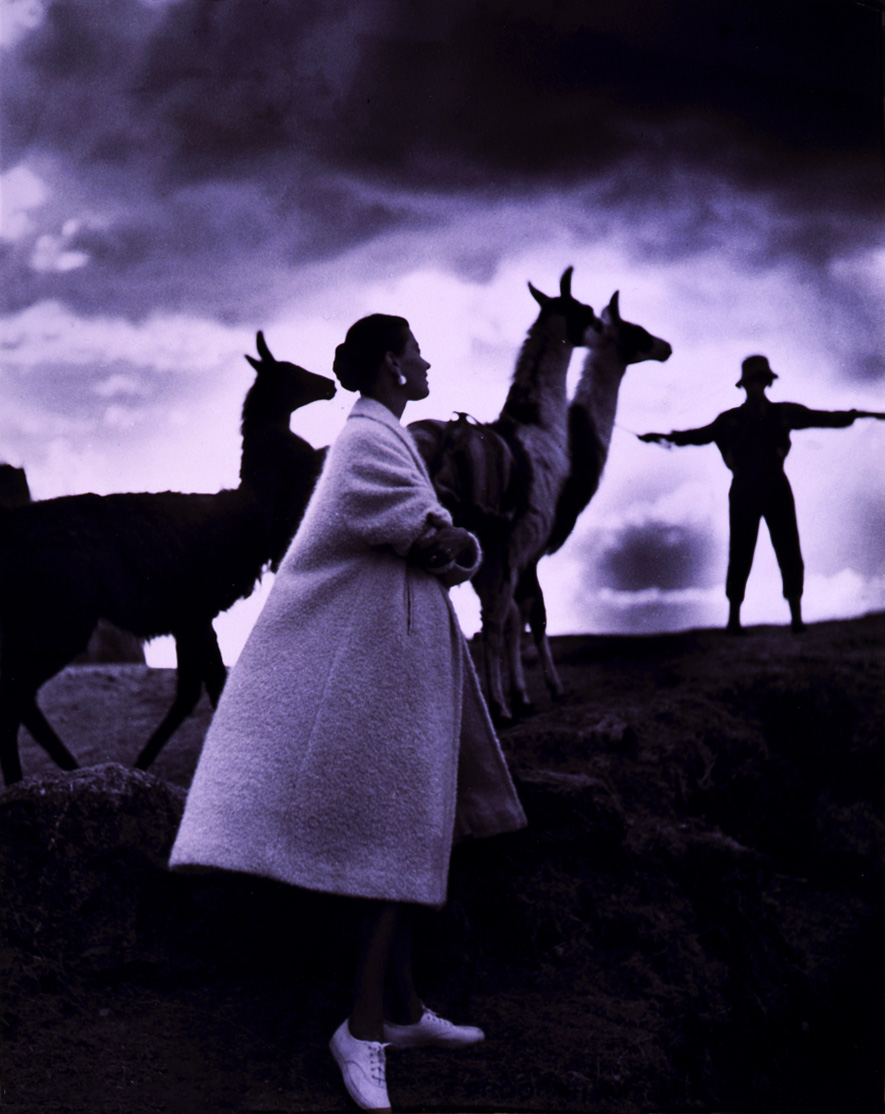 "Fashion model with llamas, Cusco, Peru", fashion photography published in Harper's Bazaar, January 1952.